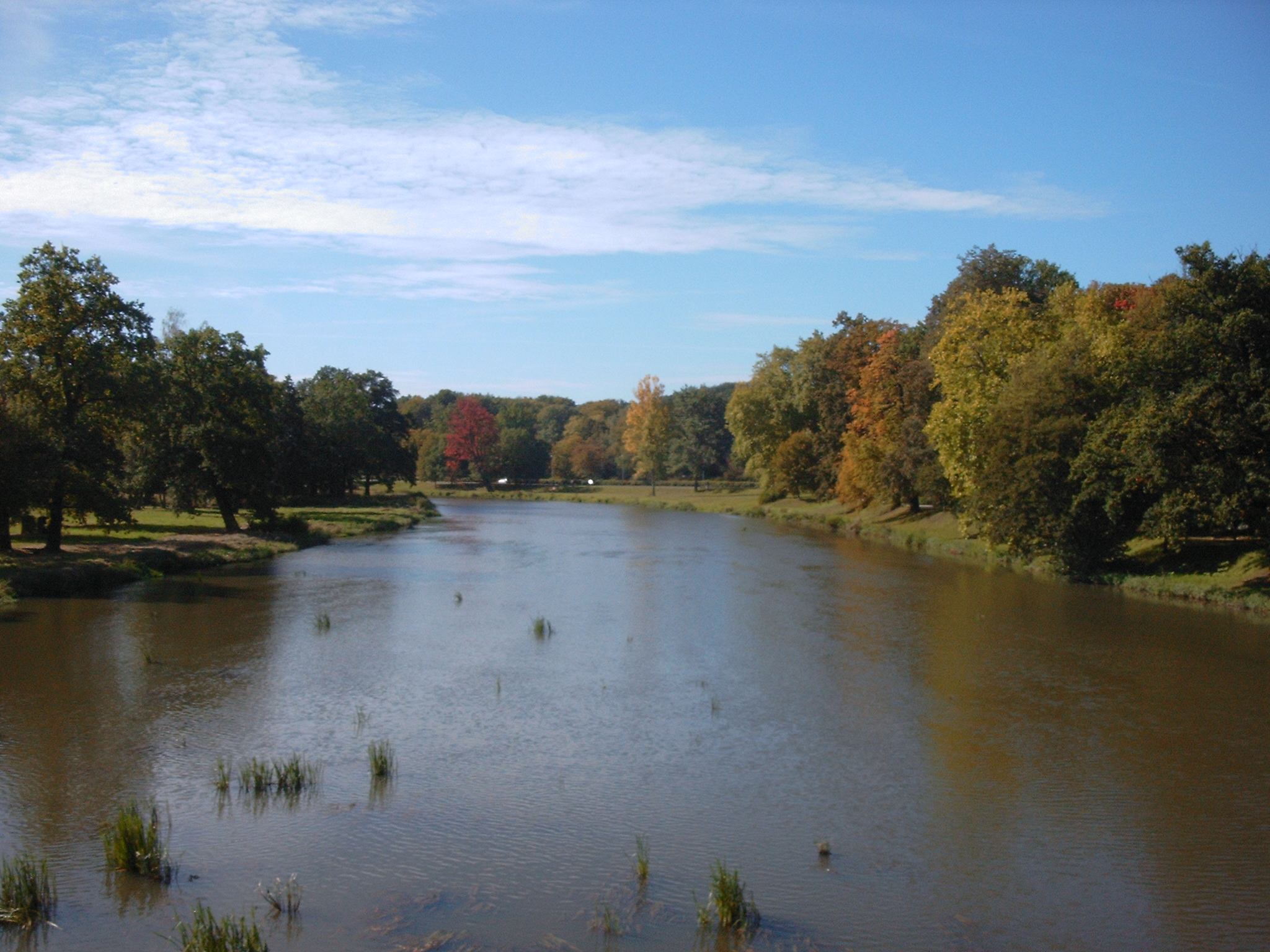 Park von Muskau, seen from the border bridge in south direction: Łęknica and Bad Muskau are separated by the Lusatian Neisse.